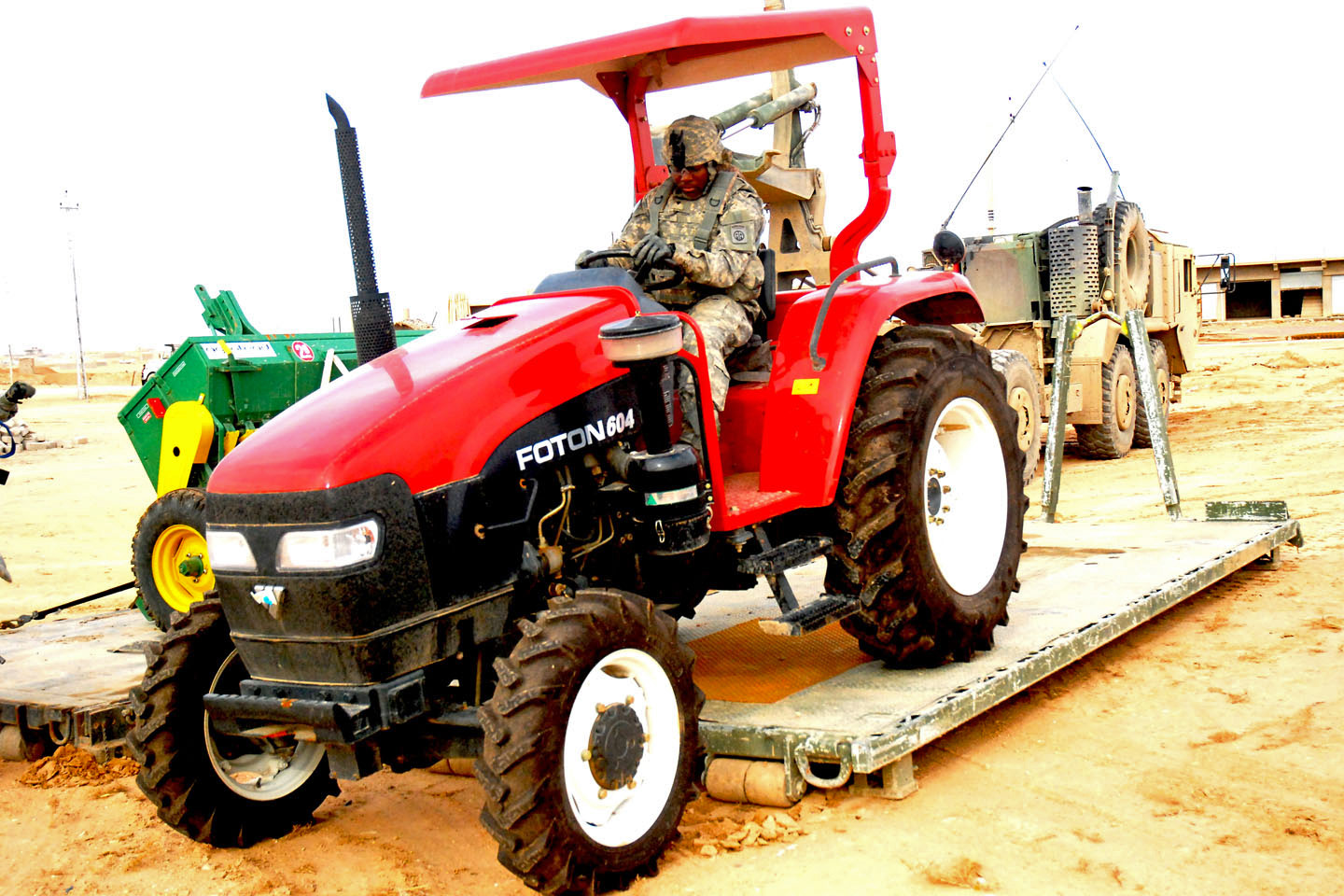 US Soldiers gave iraqi farmers two large tractors as well as two mid-size combines. This tractor is a Foton 604.